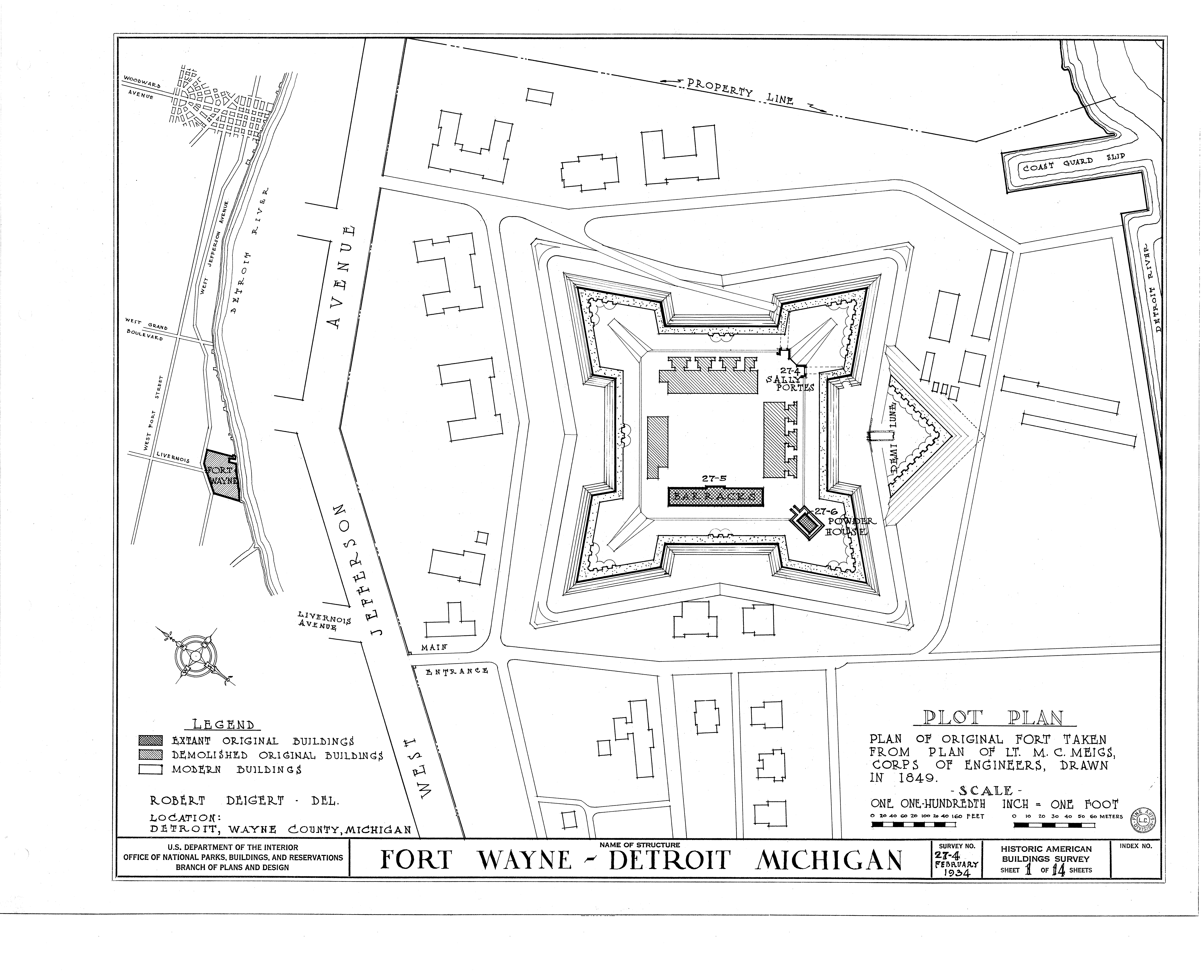 Fort Wayne Layout — Detroit, Michigan. Historic American Buildings Survey—HABS image (1934).